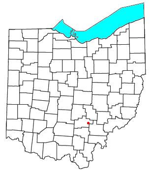 Locator map of the unincorporated community of Haydenville in Hocking County, Ohio, United States.